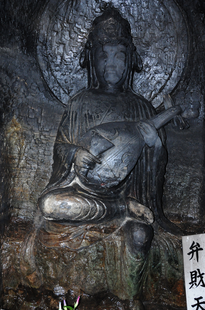 Goddess Benzaiten : Benzaiten (弁才天, 弁財天) is the Japanese name of the goddess Saraswati; there was an important river in ancient India of this name. Worship of Benzaiten arrived in Japan during the 6th through 8th centuries. Her Sanskrit name is "Sarasvatî Devî", which means "flowing water", and so Benzaiten is the goddess of everything that flows: water, words (and knowledge, by extension), speech, eloquence, and music.